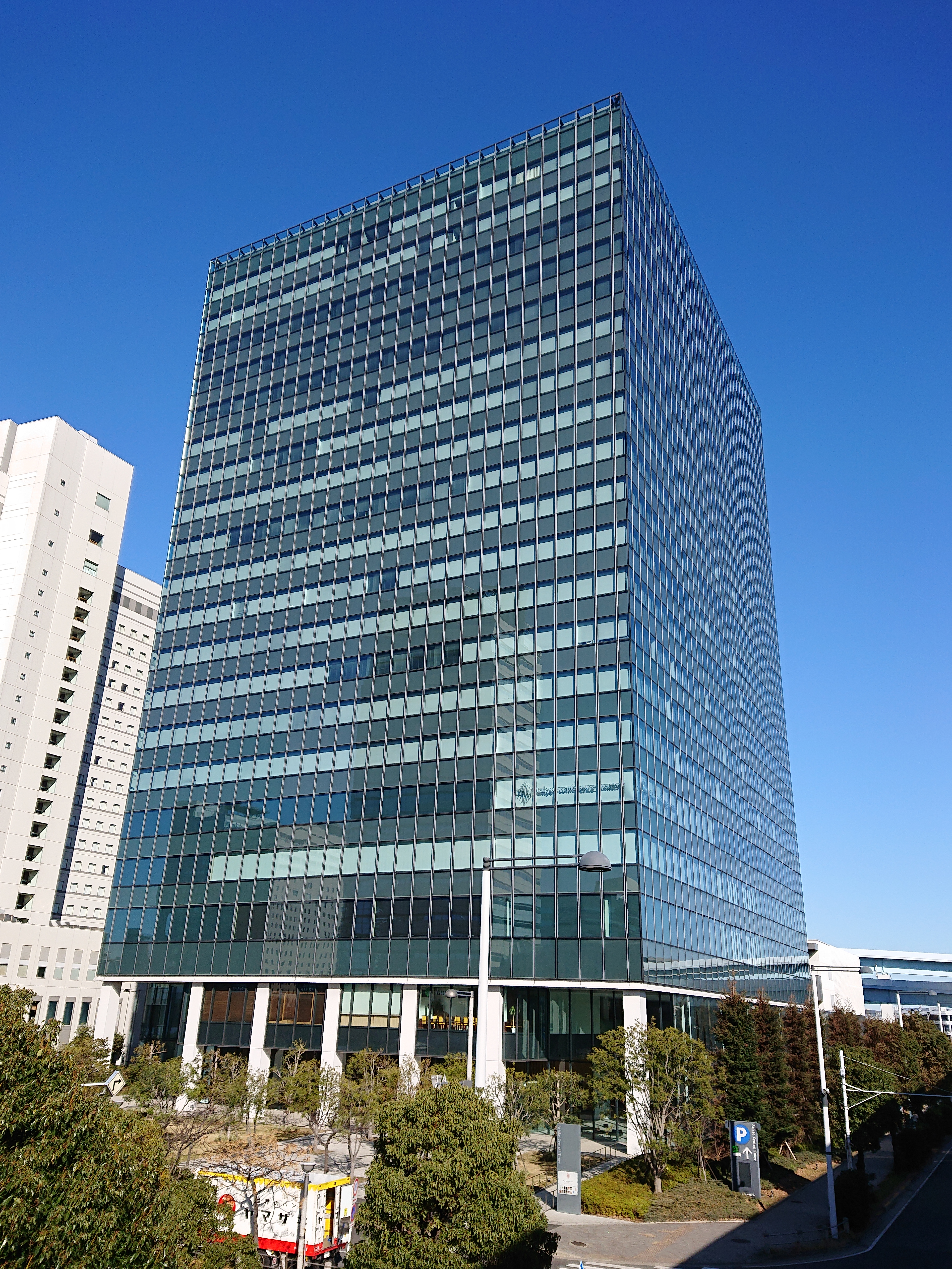 Ariake Central Tower (有明セントラルタワー), located at 3-7-18 Ariake, Koto, Tokyo, Japan